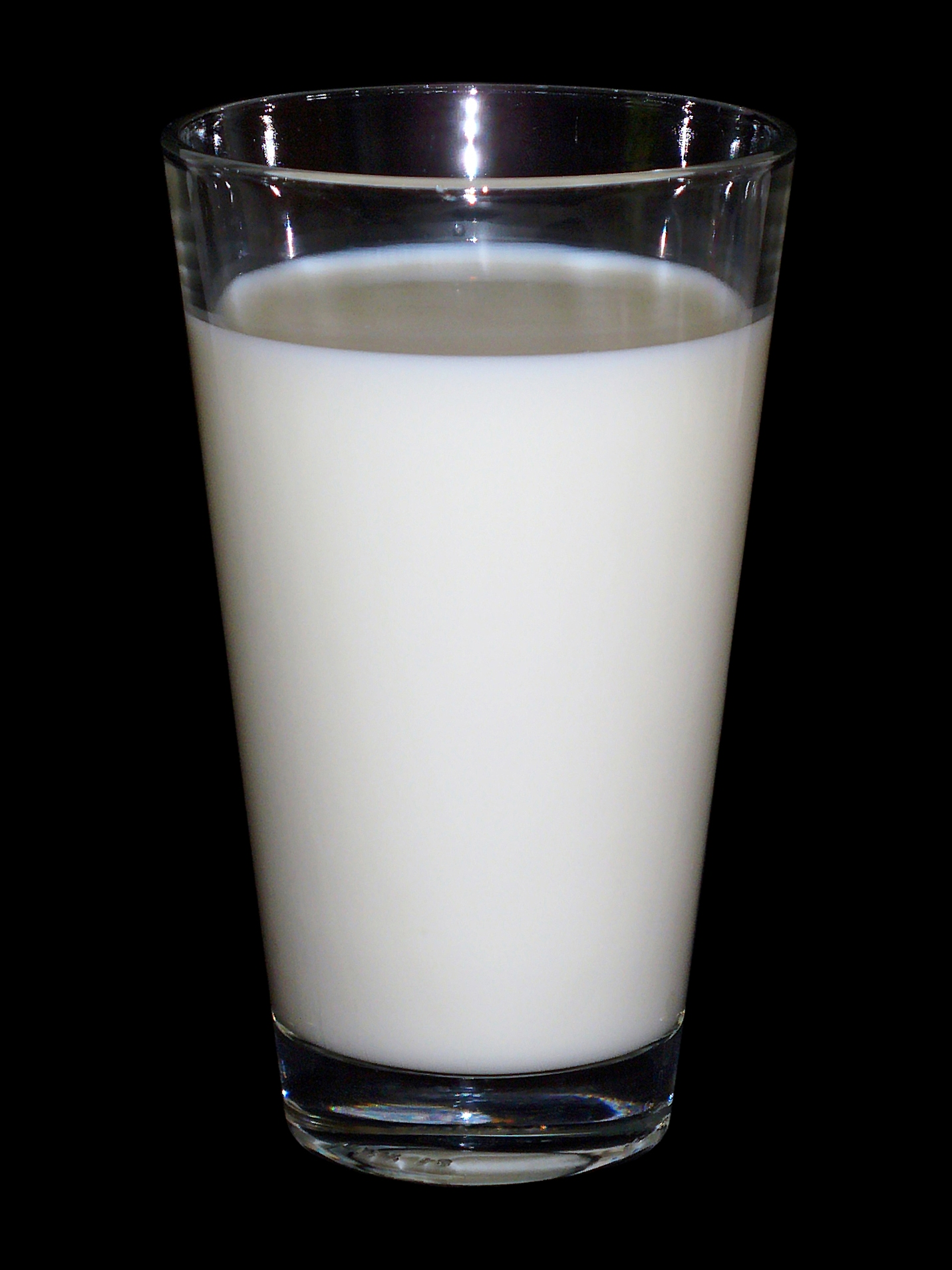 Milk in a glass